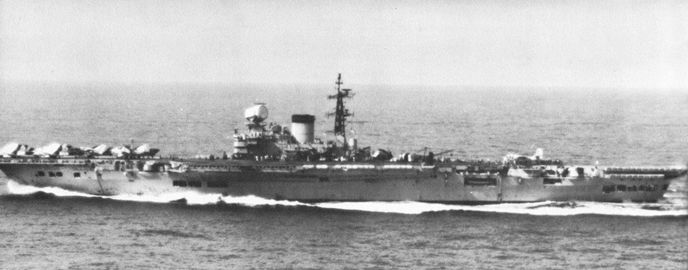 The Royal Navy aircraft carrier HMS Victorious (R38) underway in the Pacific Ocean, circa in 1964. Note the U.S. Navy Grumman S-2E Tracker aft.